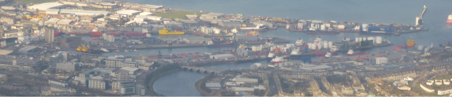 Aberdeen Harbour from the Air